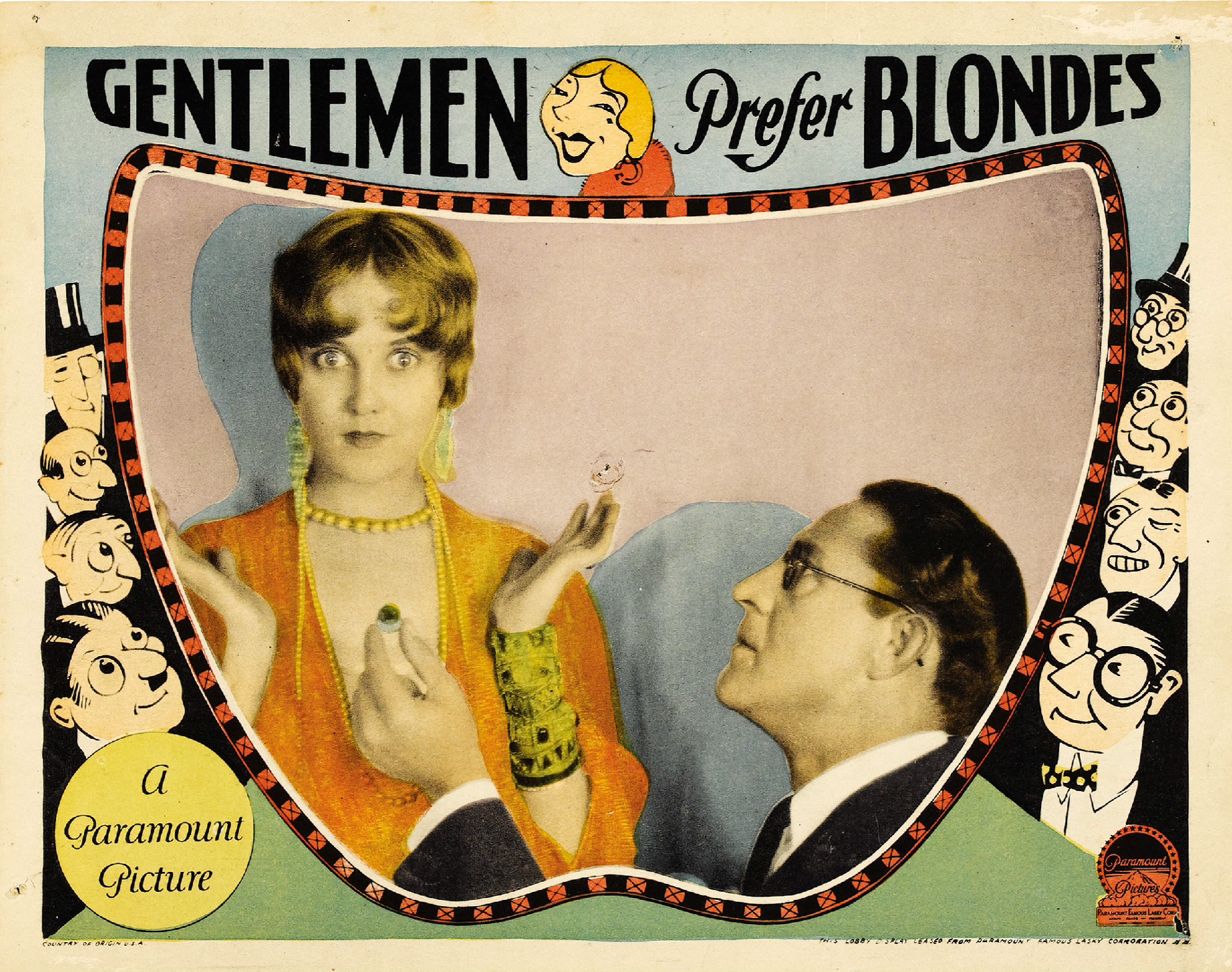 Lobby card from the American comedy film Gentlemen Prefer Blondes (1928). There are no copyright marks. At bottom left is Country of origin USA. At bottom right is This lobby display leased from Paramount Famous Lasky Corporation.